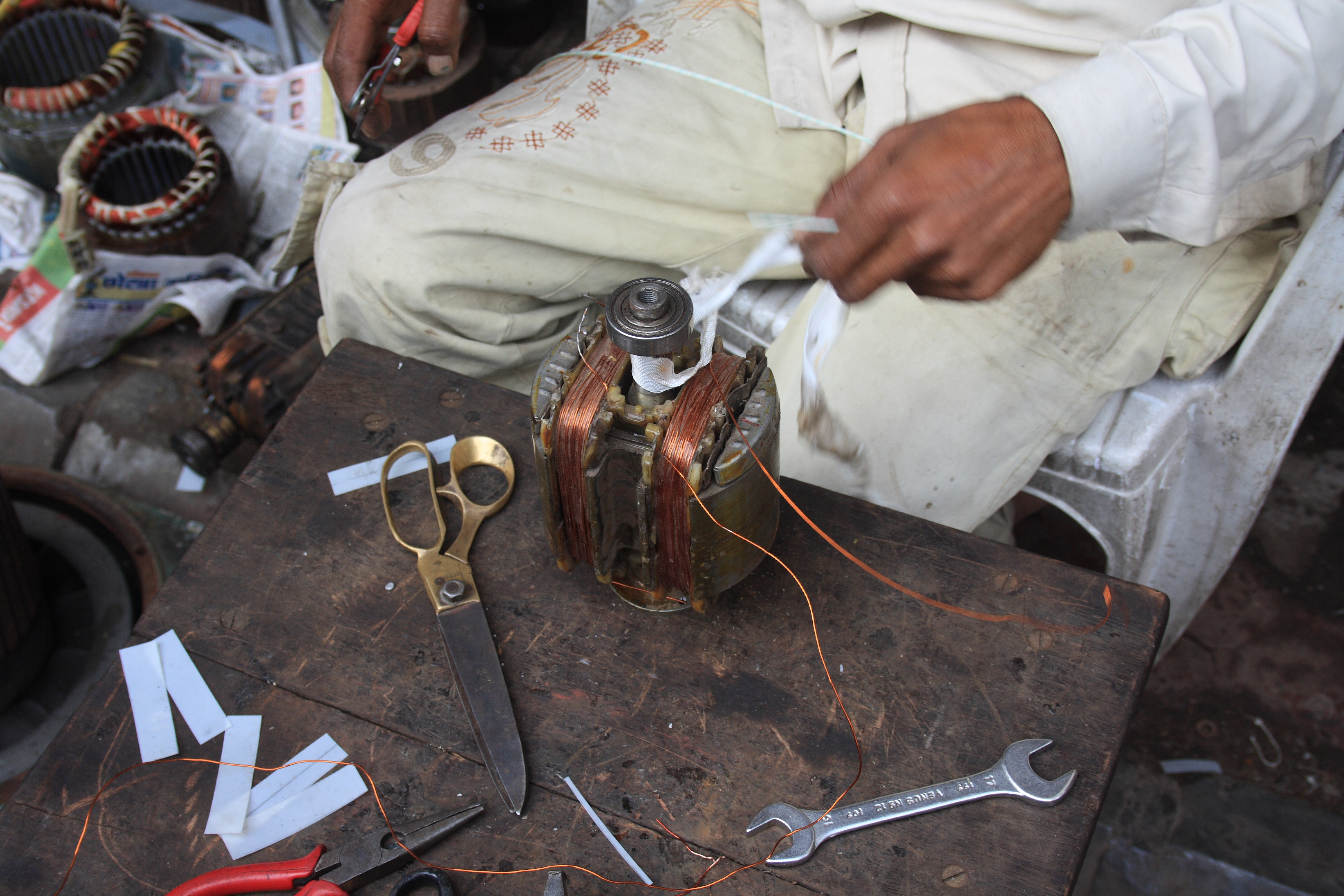 A man repairing generators and electric motors at a roadside workshop in Pune, India. Inductors are being exchanged.